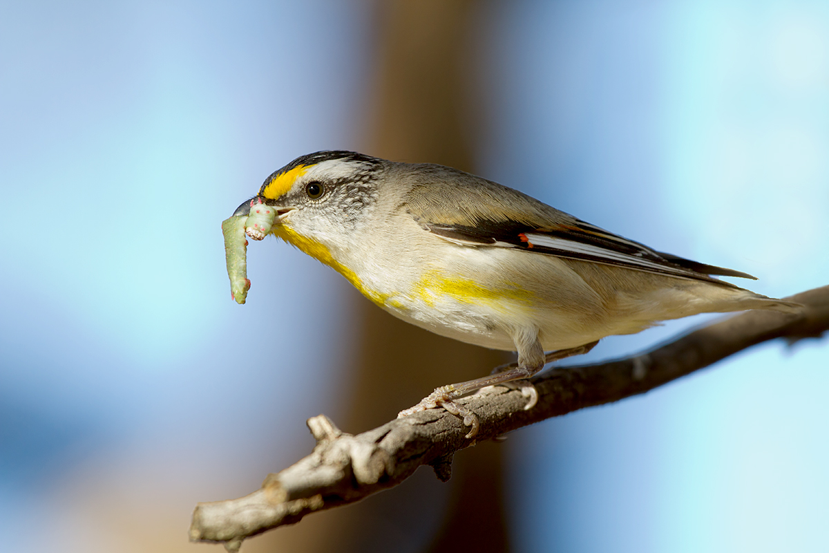 Strangways Vic. The meal continues apace!